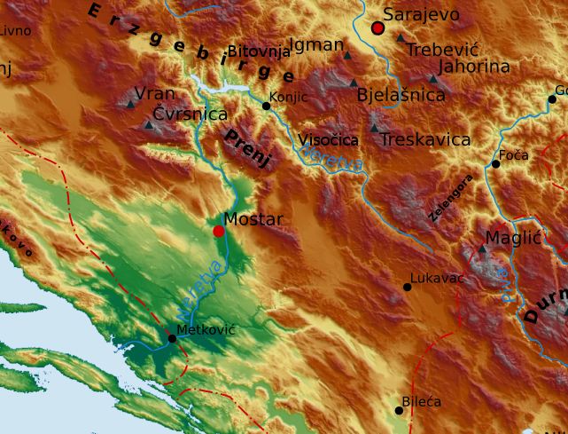 Map of River Neretva